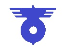 Sumita Iwate chapter